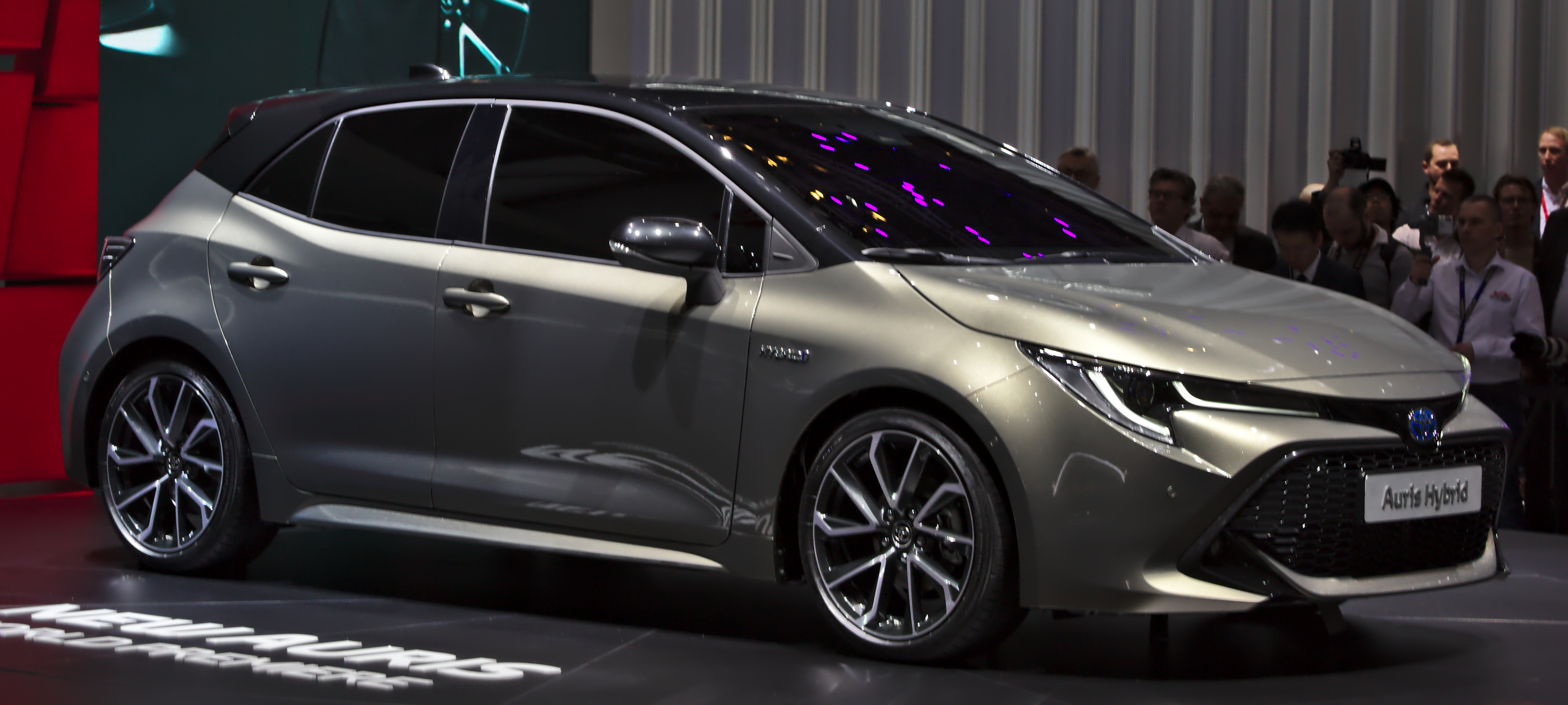 Toyota Auris at Geneva Motorshow 2018